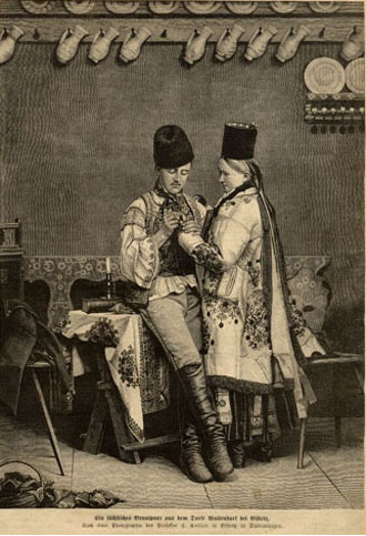 Young engaged german couple from Unirea